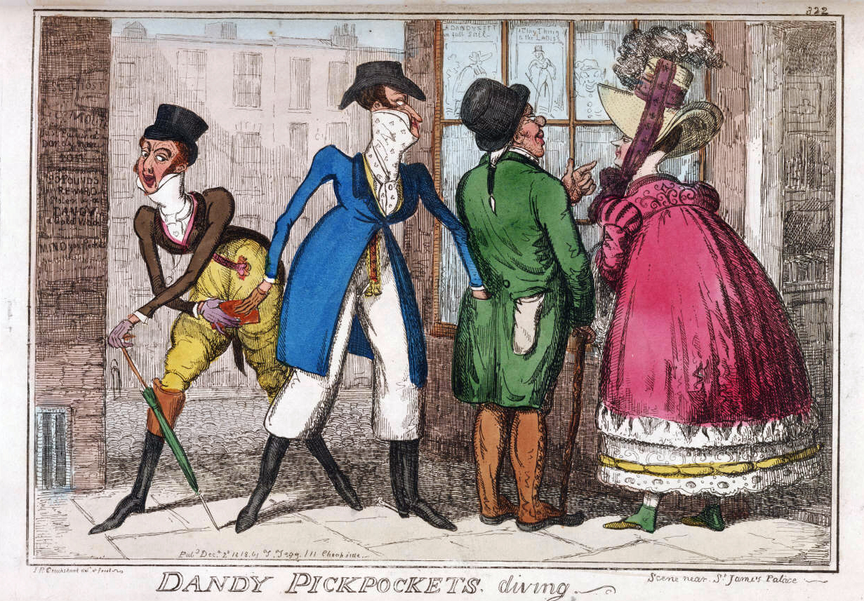 "Dandy PickPockets Diving: Scene Near St. James Palace". The man and woman at right are looking at caricatures displayed in a printshop window, while the two dandies at left are stealing from the rear pockets of the man's coat. Published in The caricature magazine, or Hudibrastic mirror, by G.M. Woodward, vol. 5, Folio 75